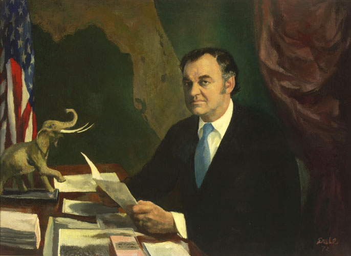 Claude Roy Kirk, Jr. (1926– ), Thirty-sixth governor of Florida, January 3, 1967 to January 5, 1971. Oil or acrylic on canvas, Ben Stahl, 1972.